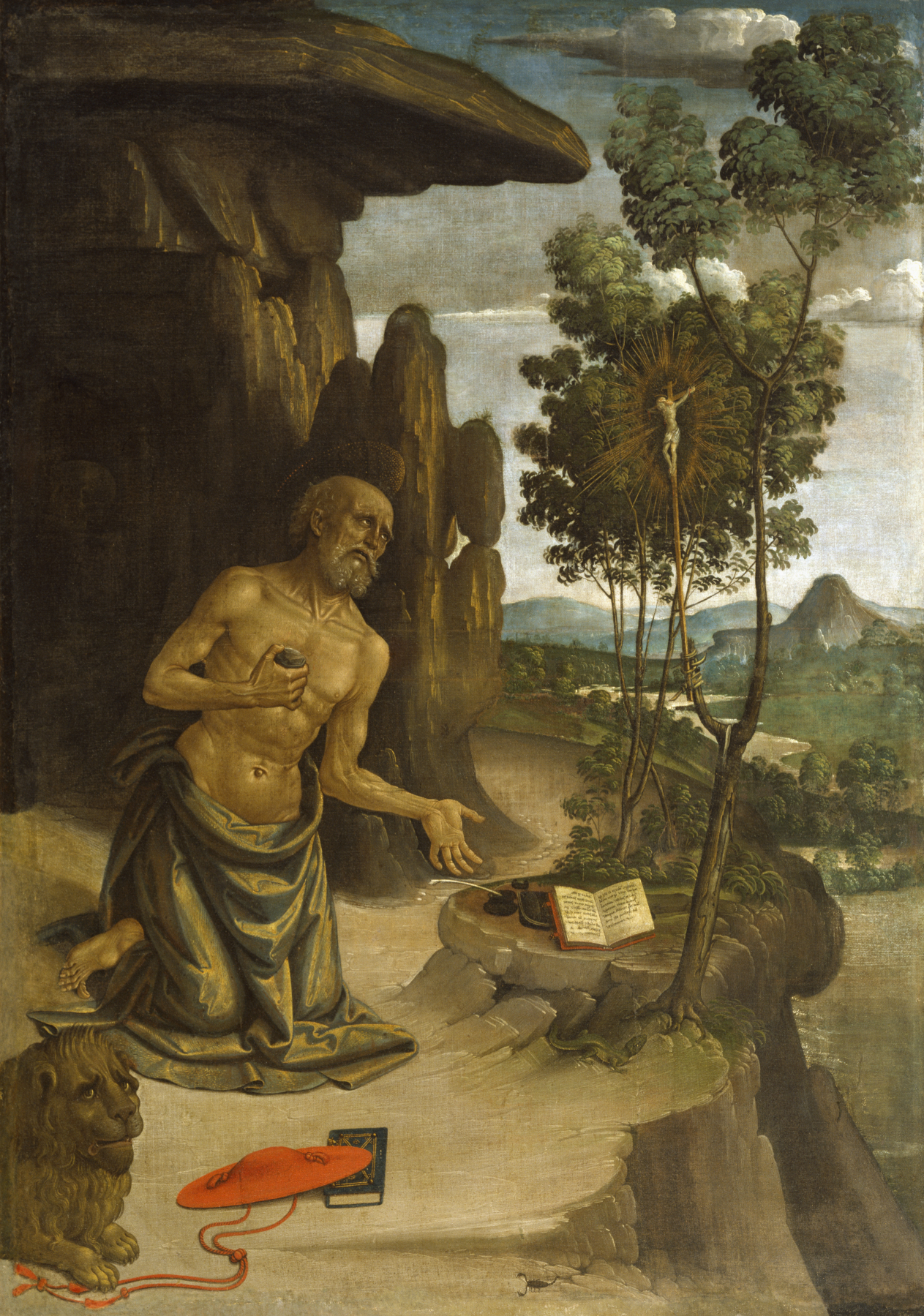 St. Jerome (ca. 347-420), one of the four Latin Fathers of the Church (along with Sts. Augustine, Ambrose, and Gregory the Great), is particularly famous for translating the Bible into Latin, known as the Vulgate Bible. The saint spent four years in the Syrian desert as a hermit, mortifying his flesh and elevating his spirit through study. The subject has given Pinturicchio the opportunity to depict a monumental, rocky landscape, while the lizard and the scorpion call attention to the desolation of the scene. The open book contains a passage from a letter attributed to St. Augustine in which Jerome is compared to St. John the Baptist, another saint who lived in the wilderness.